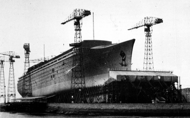 The SS Normandie under construction, prior to her launch